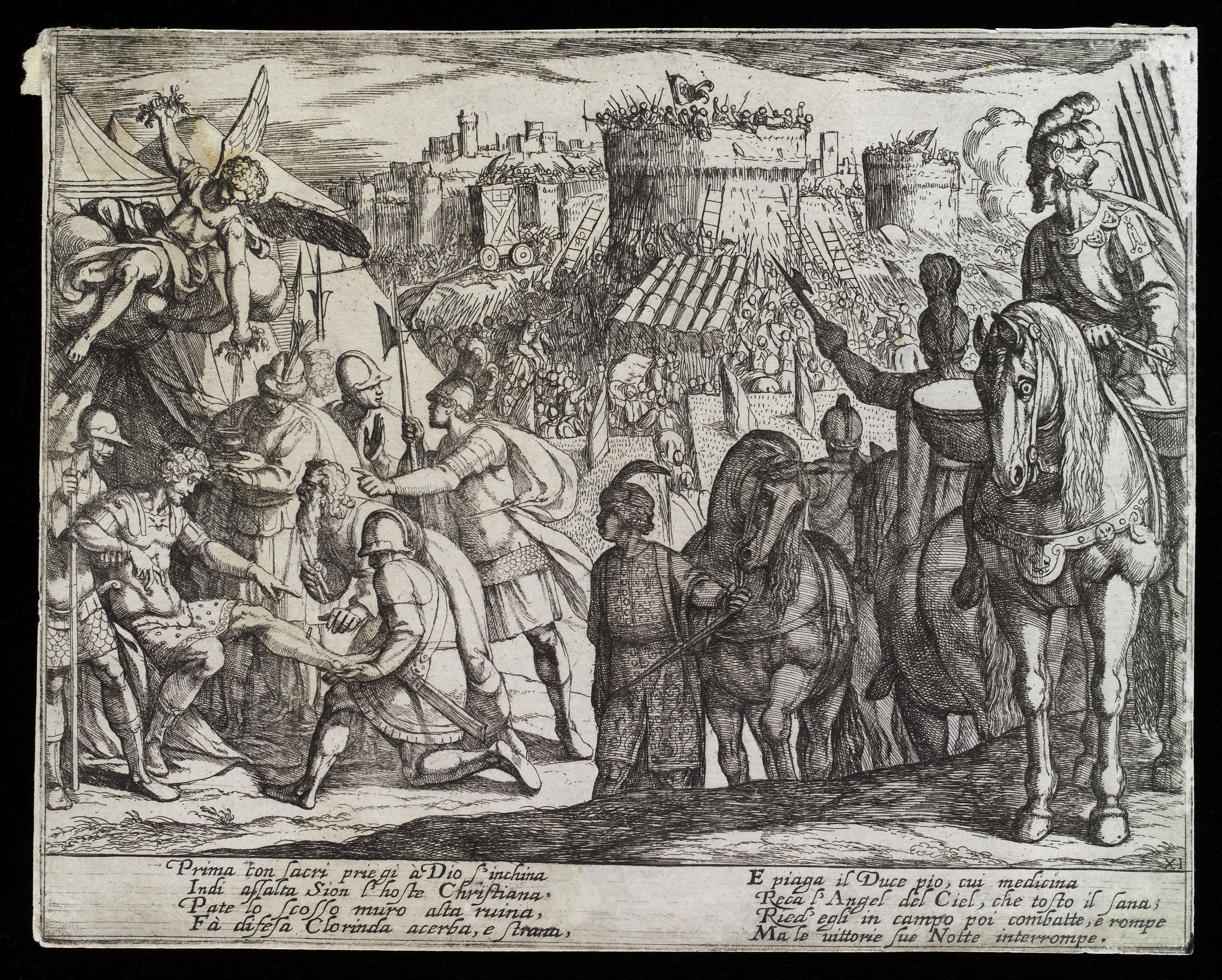 The crusaders attack Jerusalem: Godfrey of Bouillon (Goffredo) has been wounded in the leg by an arrow: he breaks off the shaft but the learned Paduan healer Erotimus cannot remove the head. In this print, the angel who has fetched the purple-flowered herb dittany from Mount Ida in Crete descends and squeezes juice from the herb into a jar held by an attendant. Erotimus stands by with his surgical instrument. With the aid of the herb, the arrowhead will come out of its own accord. Right, Christian cavalry. Centre background, the Christian assault on Jerusalem. The image illustrates Episodes in Gerusalemme liberata by Torquato Tasso, canto XI, especially stanza 74. Wellcome Images Keywords: Castles; Antonio Tempesta; Battles; Soldier; Crusade; Healing; Military Personnel; Angels